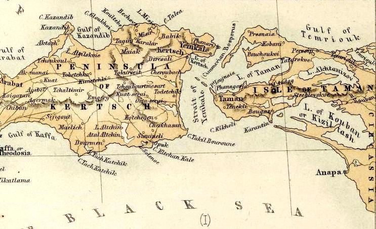 (Caucausus & Crimea with the Northern Portions of the Black & Caspian Seas, IX. (with) Crimea according to Huot & Demidoff. Drawn & Engraved by J. Bartholomew, Edinburgh. (with) The Caucasus according to Profr. Dr. Karl Koch, with additions from other Sources by Augustus Petermann, F.R.G.S. Engraved by G.H. Swanston. A. Fullarton & Co. London, Edinburgh & Dublin.